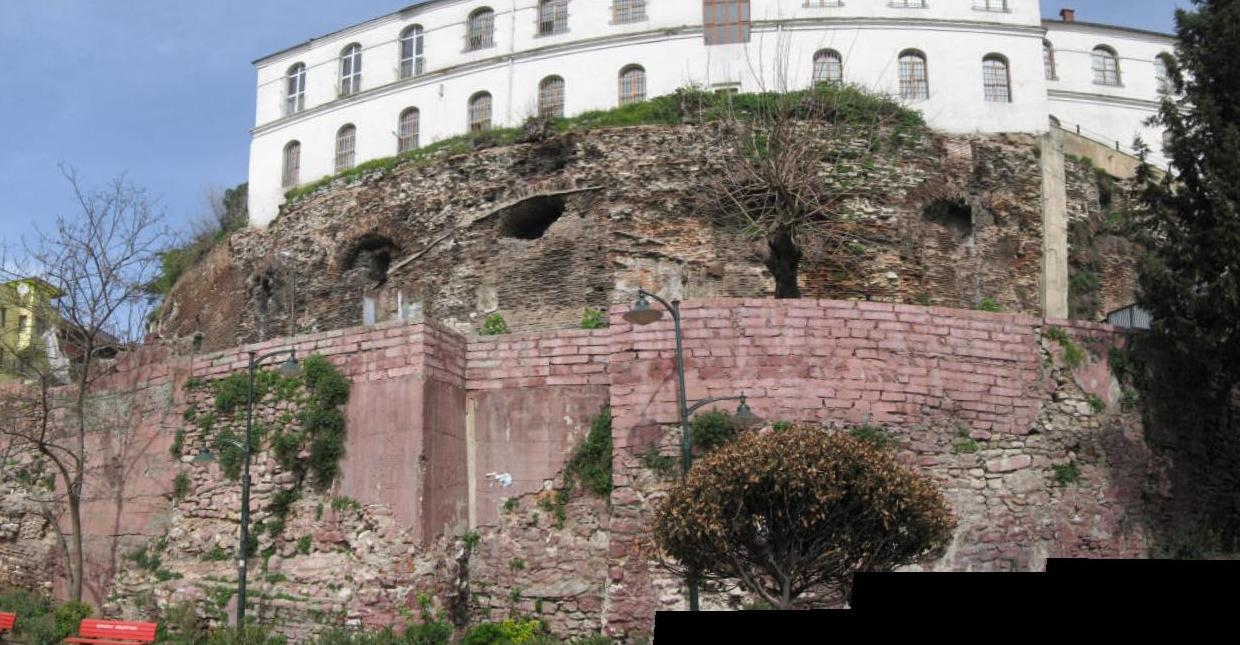 View of the ruined sphendone end part of the Hippodrome of Constantinople.